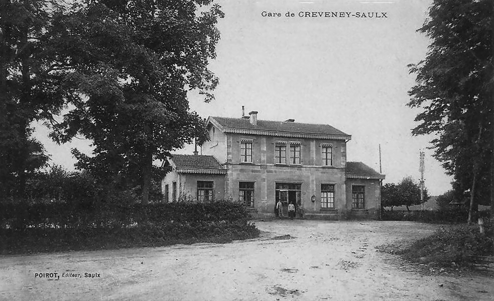 Creveney - Saulx railways station, department of Haute-Saône, in the early 1900s.